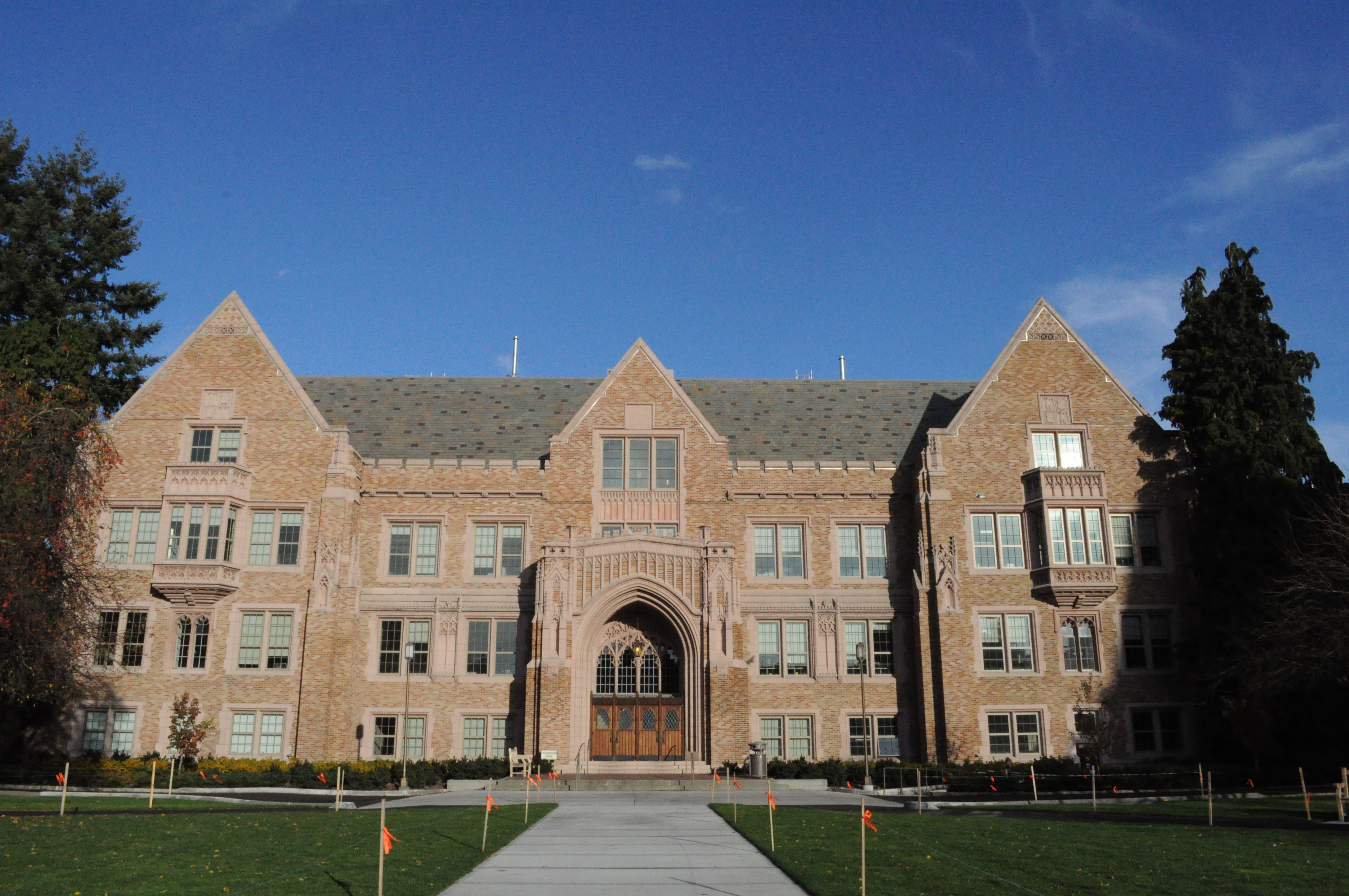 Guggenheim Hall (aeronautics building), University of Washington, Seattle, Washington.